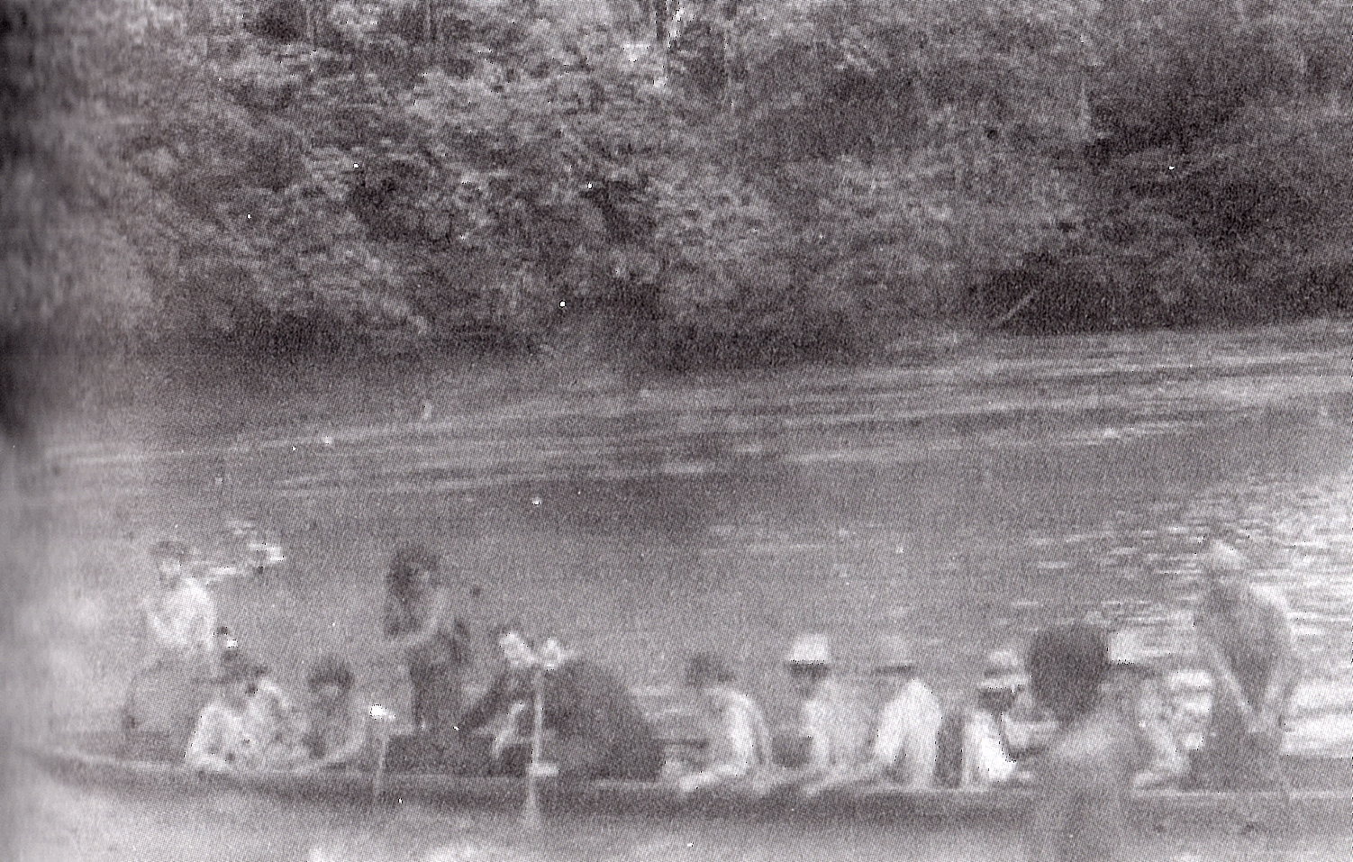 Father Carlo Crespi with Father Albino Del Curto driving a canoe with some settlers and Shuar Indians